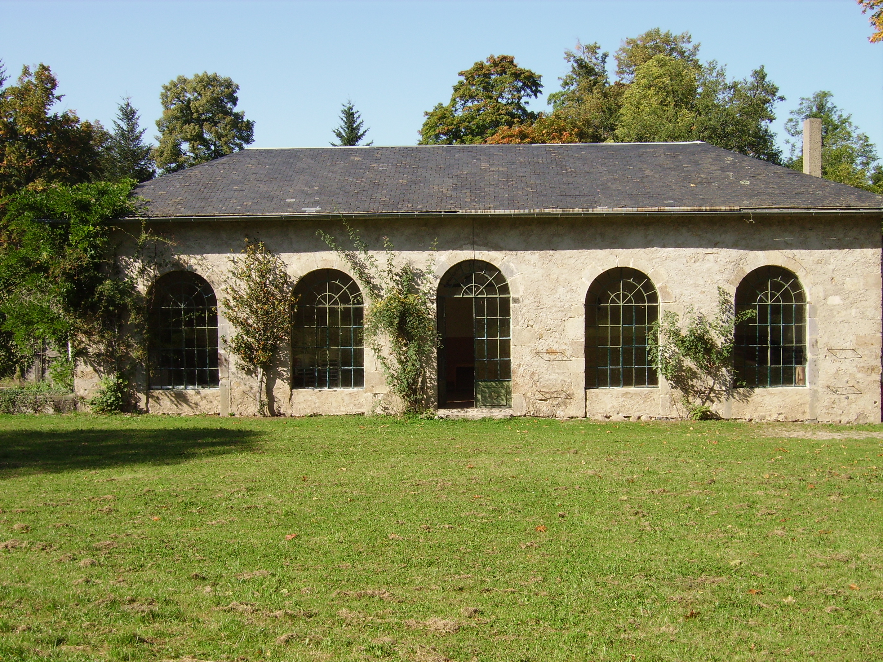 A view of the orangery of maubourg castle - France - a photography